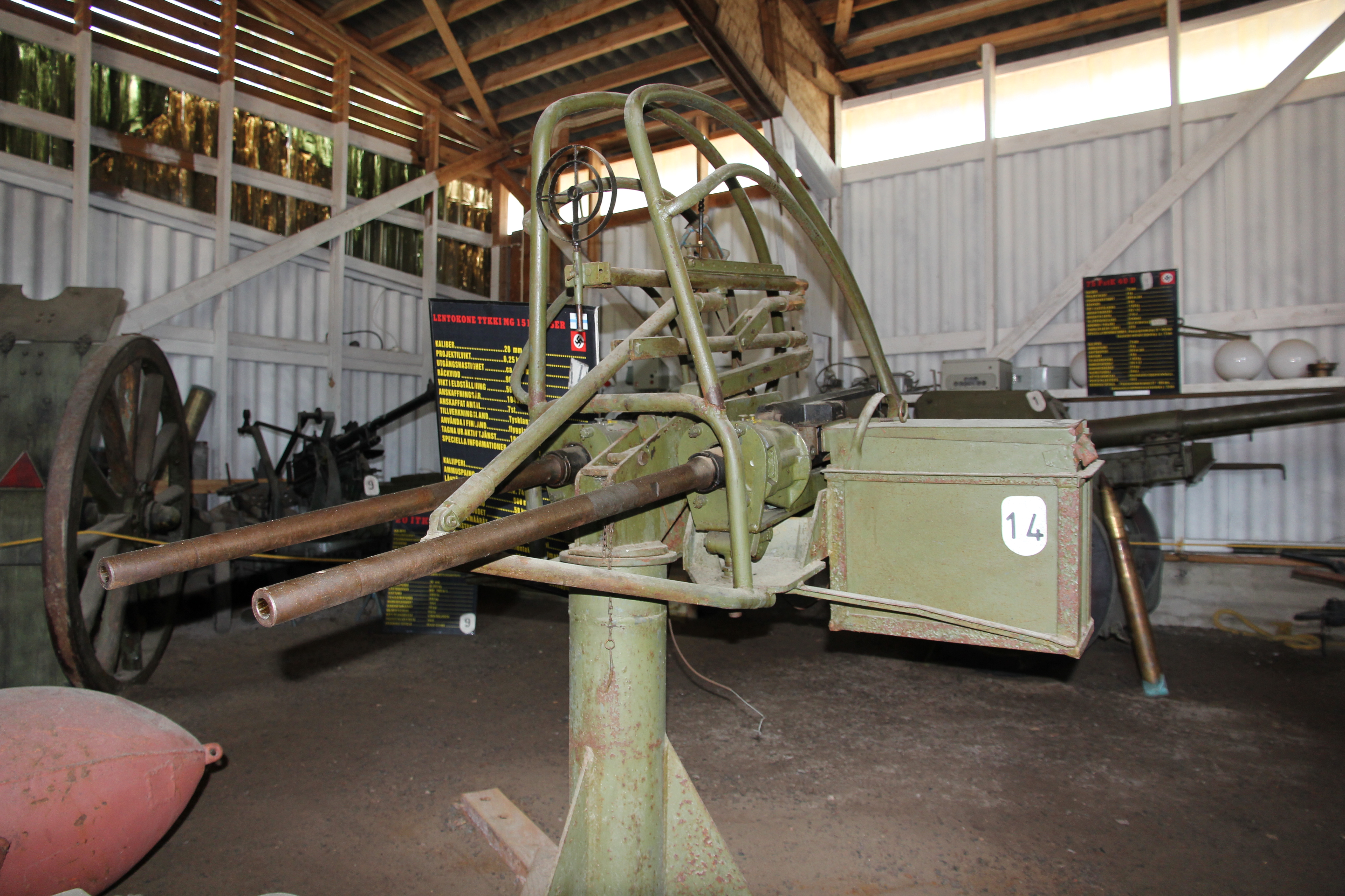 Finnish light anti-aircraft cannon 20 TorKK MG-151 2 photographed in the Cannons of Torp museum. The guns are german MG-151/20 aircraft cannons taken from decommisioned Messerschmitt Bf 109 G fighters.